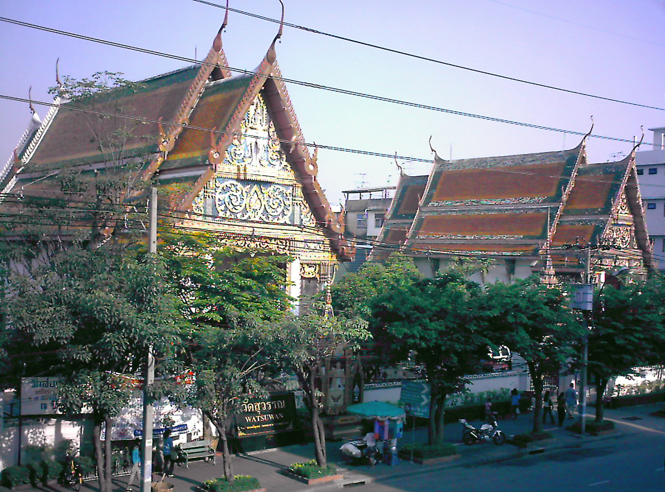 Main Gate of Wat Suwan, Bangkok, Thailand. 中文（香港）: 泰國，曼谷，空訕縣，哇素溫寺，大門